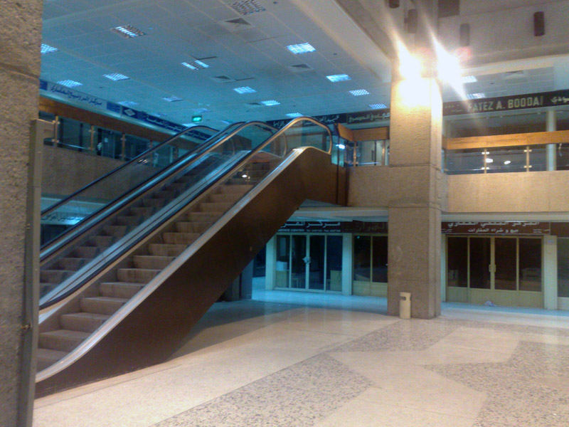 Souq Al Manakh, Kuwait